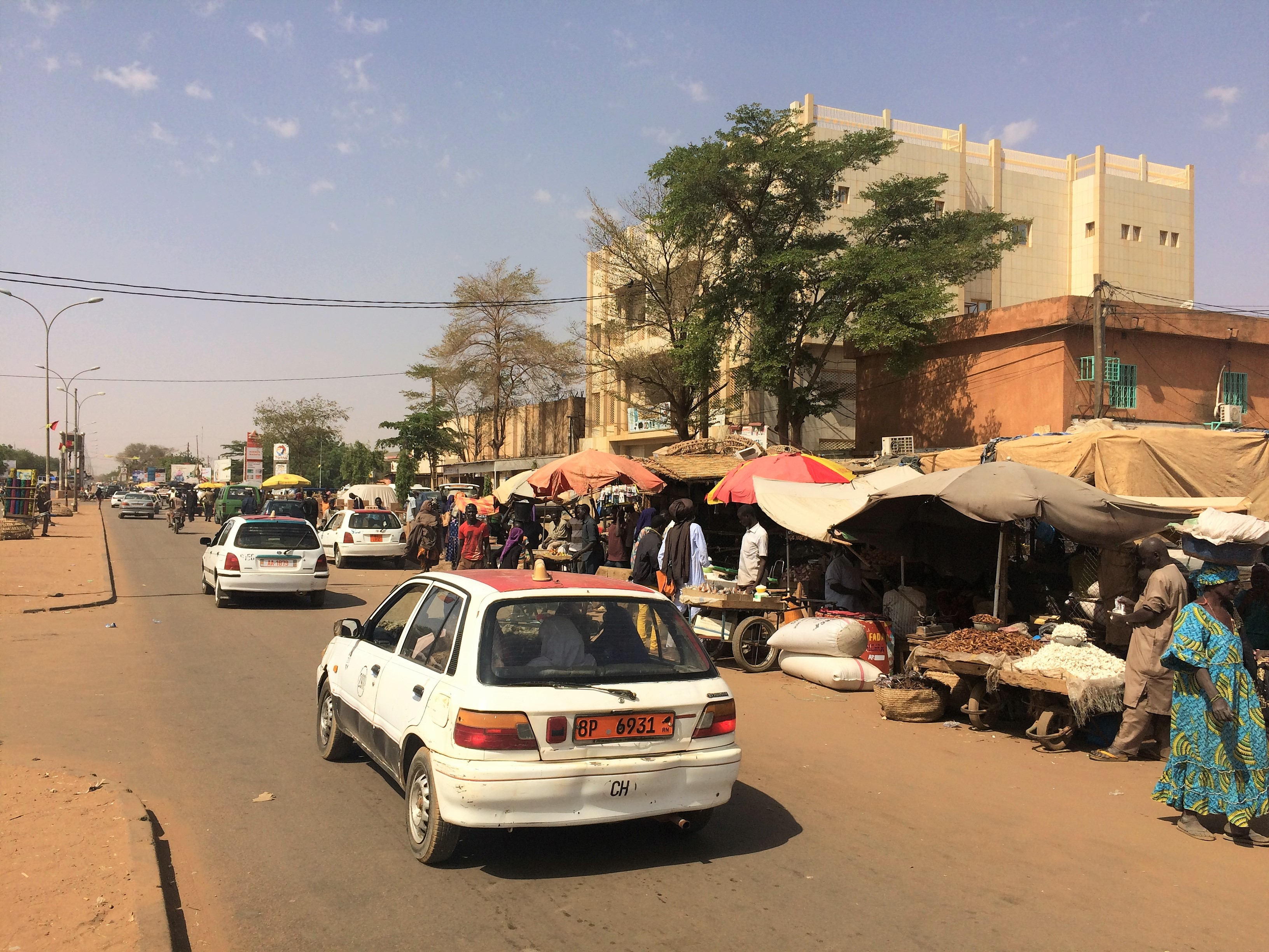 Scene on the Avenue Mali Béro (Rue RF-34) in the eastern part of Niamey, capital of Niger.